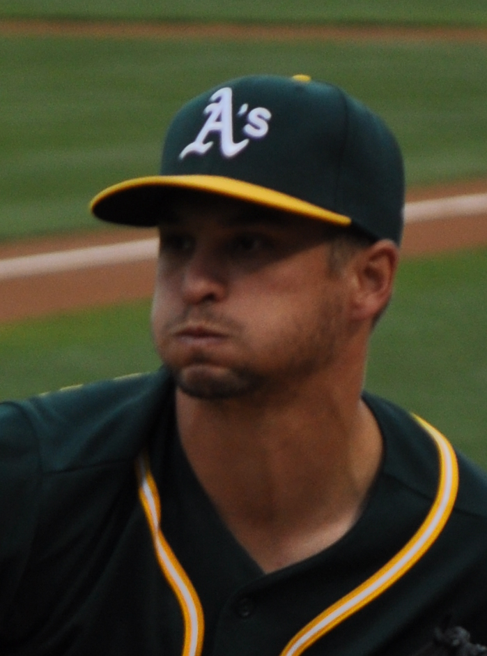 Graveman warms up before his 07-21-15 start against Toronto